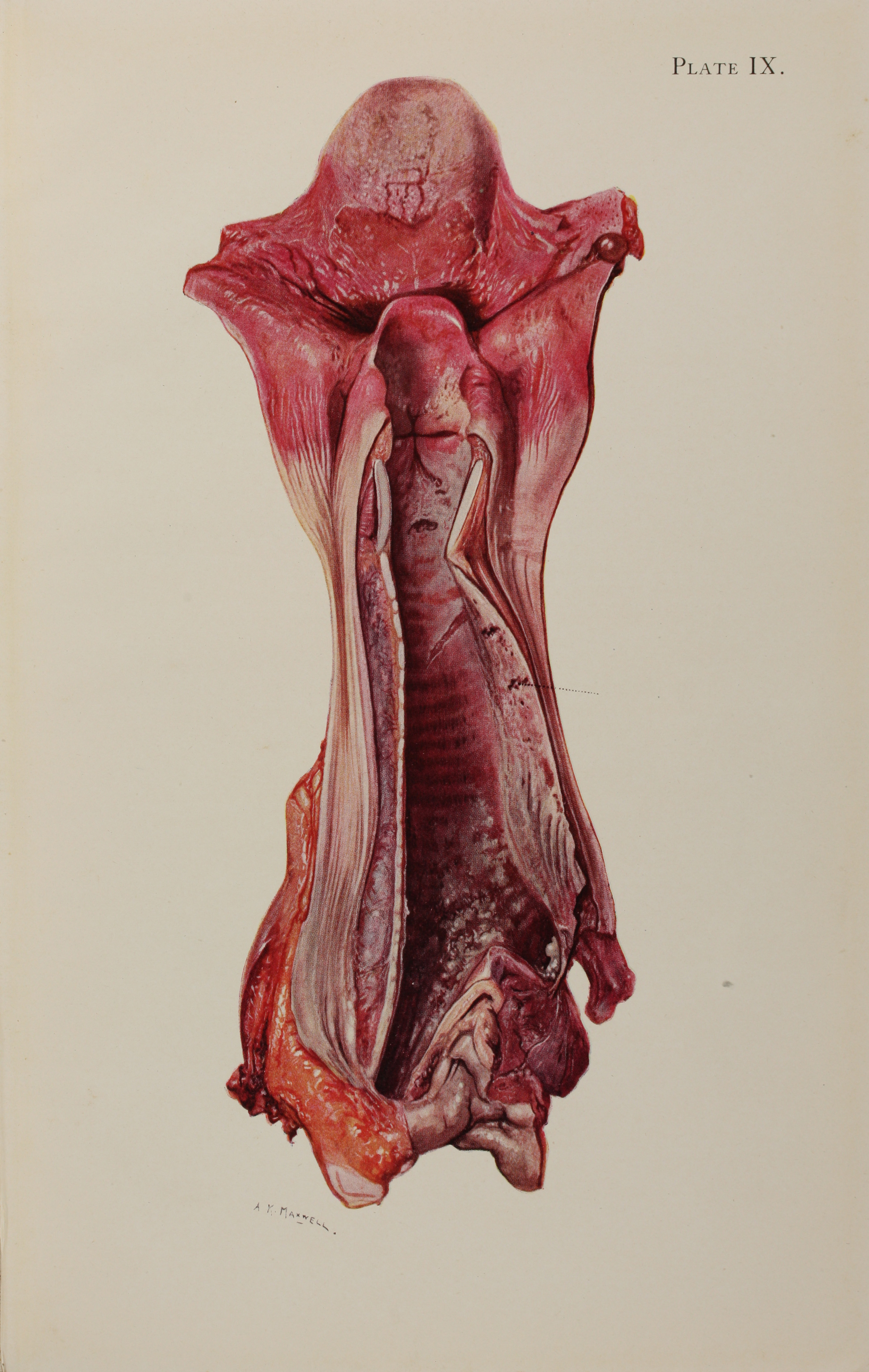 Plate IX from An Atlas of Gas Poisoning by the American Red Cross and Medical Research Committee (American Red Cross, 1918). Plate title: "Ulceration of trachea by mustard gas." Text begins: "The characteristic feature is the sloughing of the tracheal mucous membrane. The reddening of the base of the tongue and of the pharynx with a sharp delimitation where the oesophagus has refused ingress to the toxic vapour, is also seen with chlorine and other irritant gases. ... " The American Red Cross published this guide for the American Expeditionary Force in World War I, sometimes called the "chemists’ war." The chromolithograph plates of characteristic injuries were intended to help inexperienced officers identify the type of gas used in attacks.